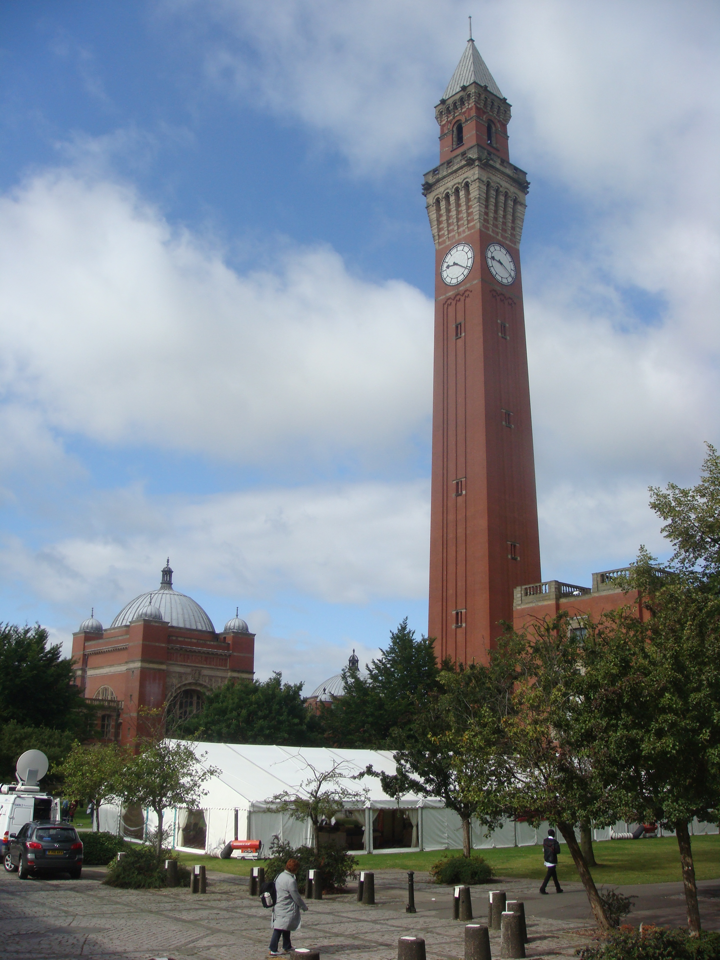 (Yang Fan, I took this picture in 2008. I am student of the University of Birmingham. Any one that want to use this image, it is allowed to do it.)